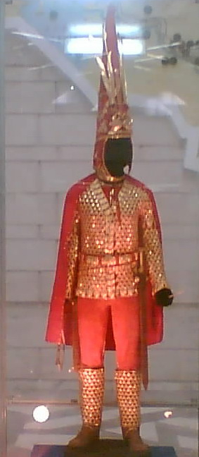 Issyk's Gold Cataphract Warrior (from Kazakhstan), a parade gold scale armour from Issyk's tomb of Sakas King